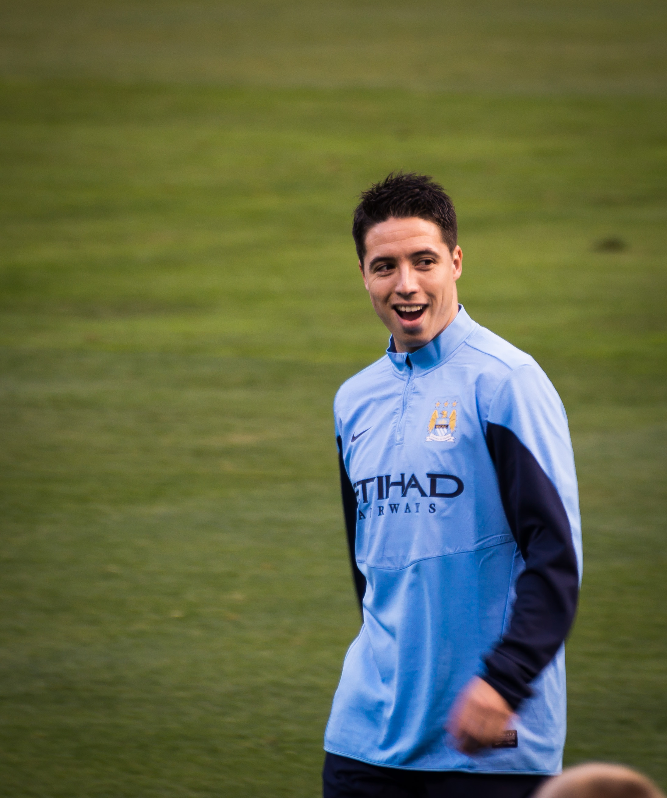 Samir Nasri before the friendly game between Manchester City and Chelsea FC at Busch Stadium in St. Louis in 2013.